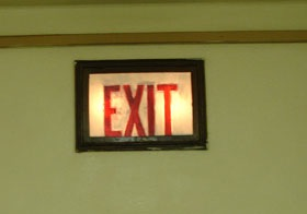 An old exit sign that does not meet modern fire codes. This sign is grandfathered in with an older building. Taken in Campbell Hall, Michigan State University.